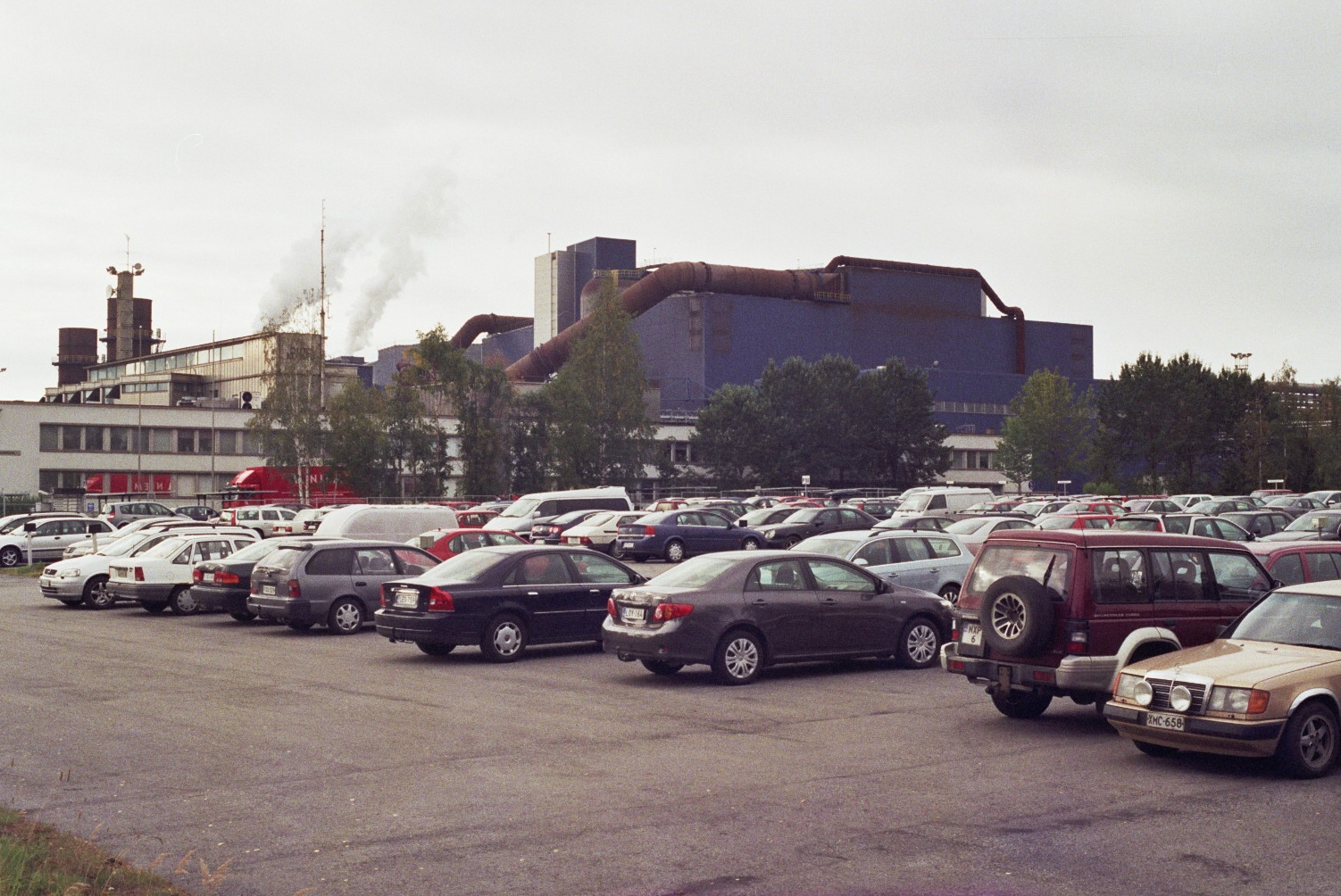 A view from the steel factory of Outokumpu in Tornio, Finland.